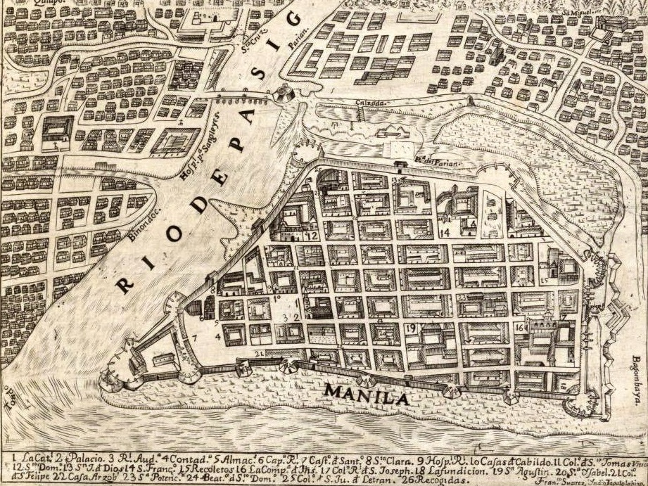 Walled City of Manila, detail from Carta Hydrographica y Chorographica de las Yslas Filipinas (1734).